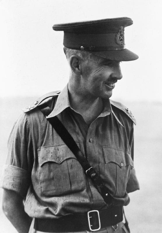 Lieutenant-General A E Percival, General Officer Commanding Malaya at the time of the Japanese attack.